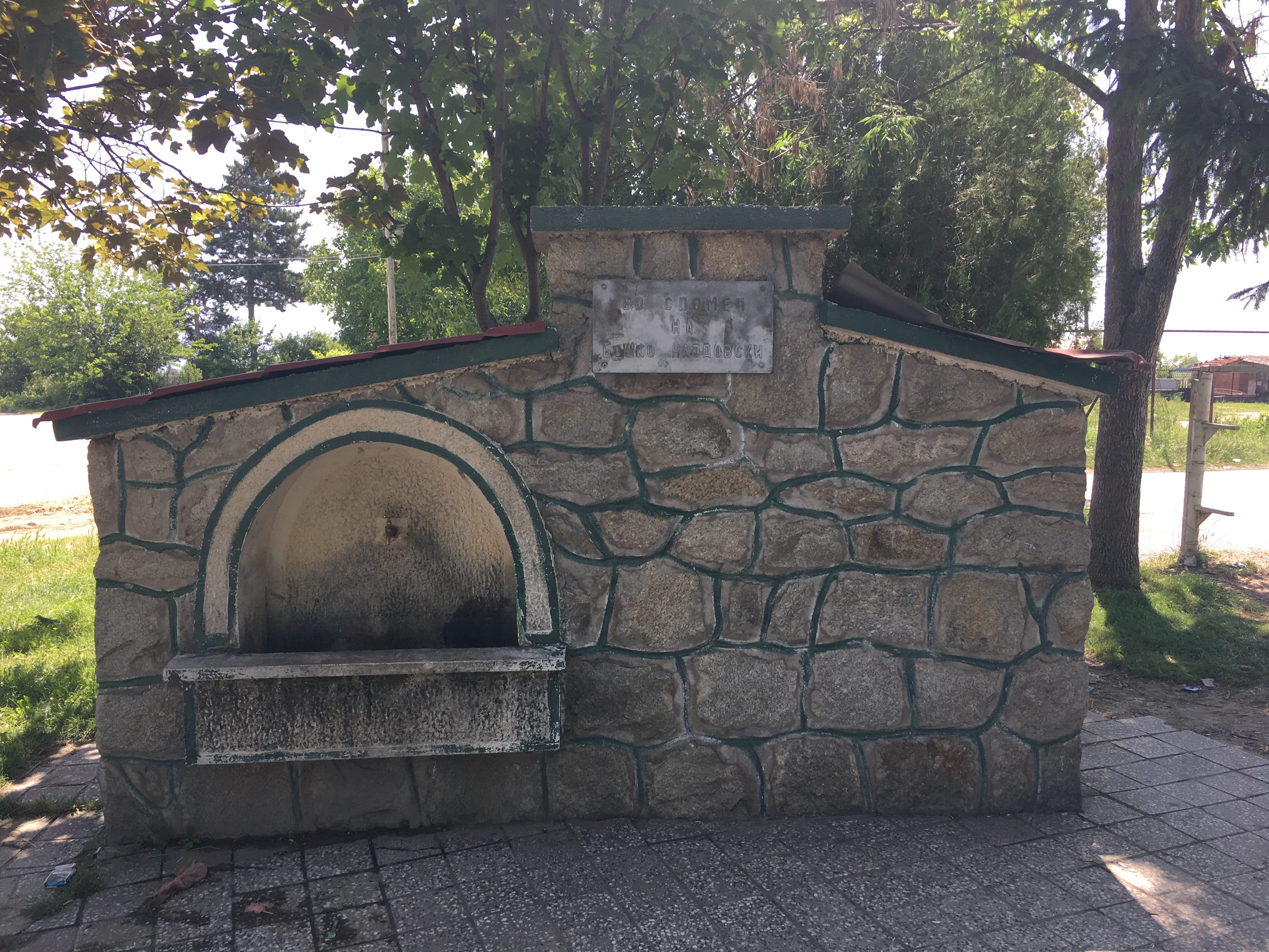 A pump in the village of Dolno Orizari